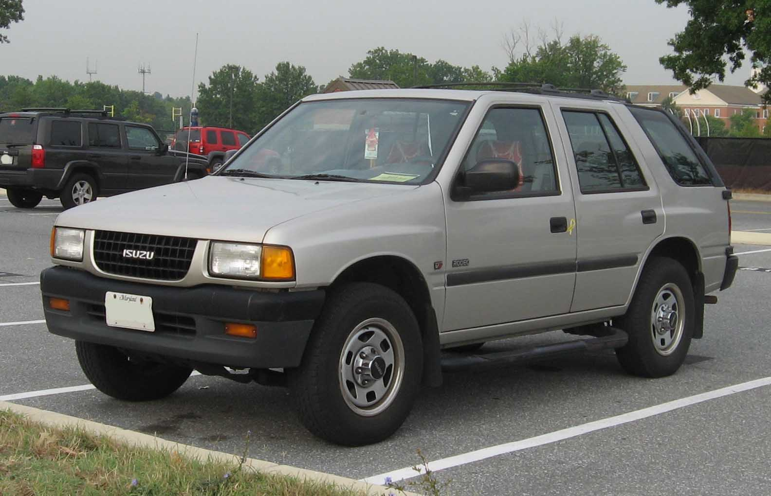 1991-1997 Isuzu Rodeo photographed in USA.